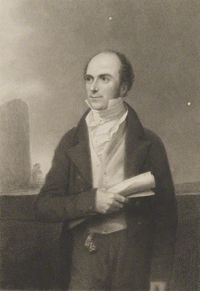 Portrait of Charles Phillips (1787?–1859), Irish barrister and writer.